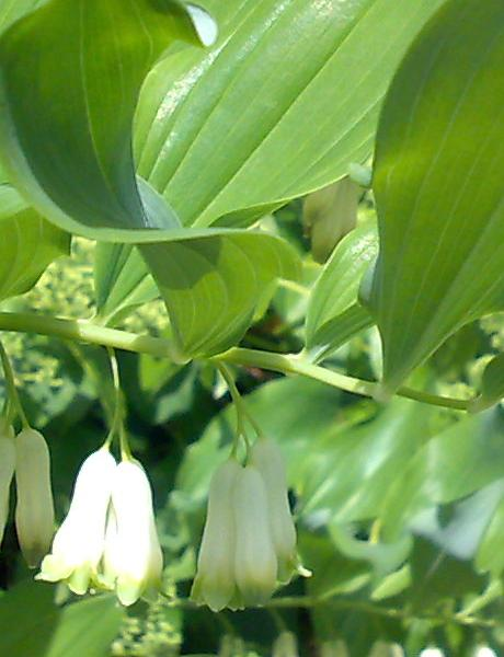 Polygonatum multiflorum